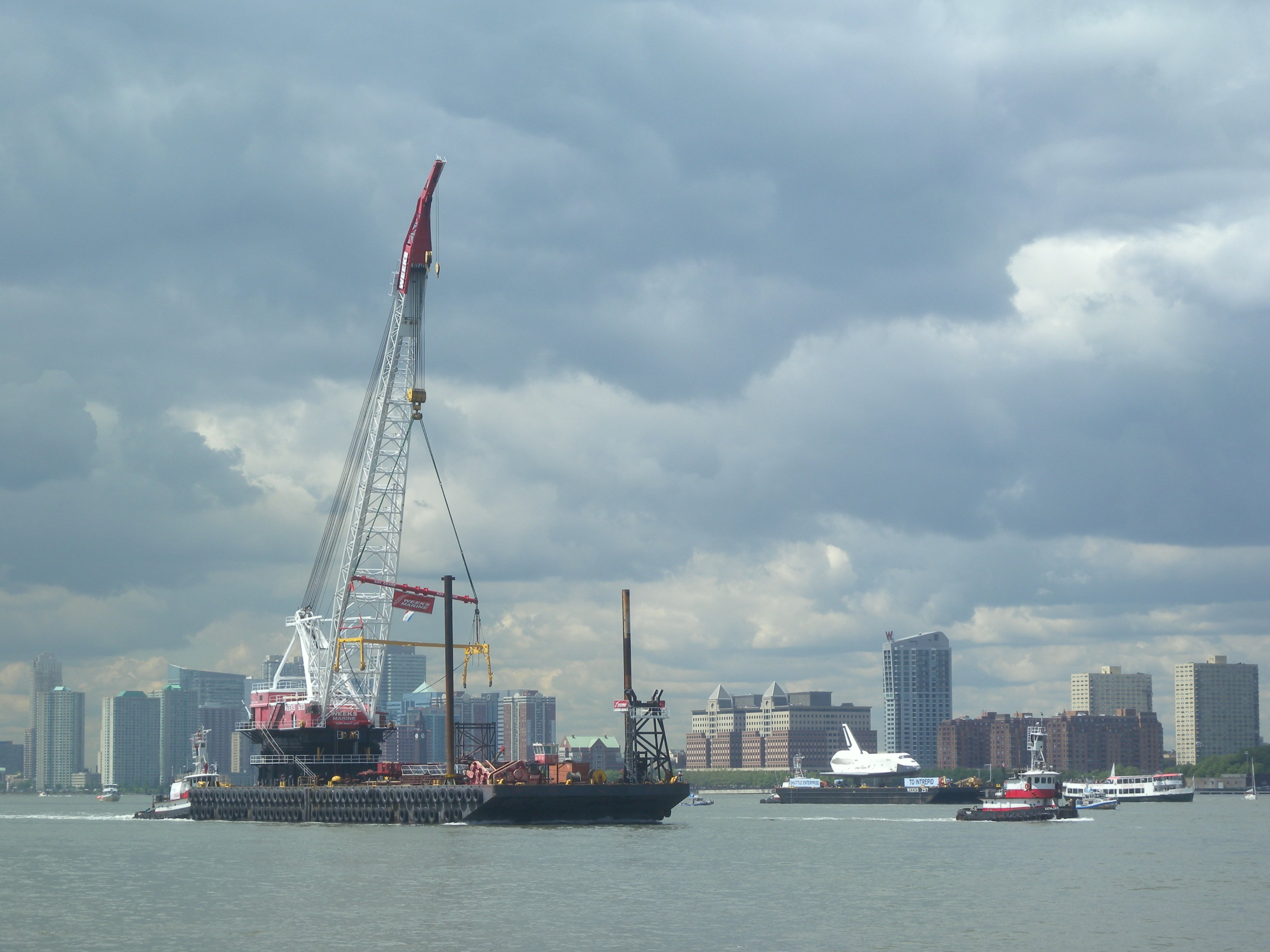 Looking southwest as crane barge passes Newport on a mostly cloudy day.